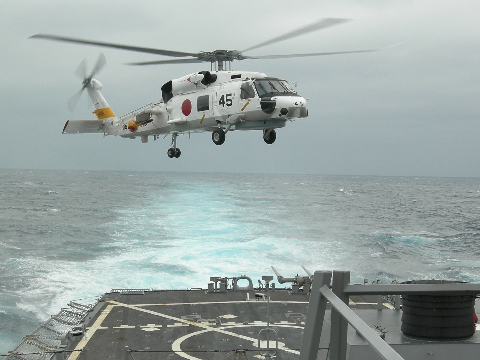 A Japan Maritime Self-Defense Force SH-60J Seahawk helicopter from JS Haruna (DDH 141) lands onboard USS Russell (DDG 59) March 17, 2007. Russell is part of the USS Ronald Reagan (CVN 76) Carrier Strike Group, and is participating in a three-day passing exercise with JMSDF forces. (U.S. Navy photo by Gas Turbine System Technician Fireman Derek Webster) (Released) (VIRIN: 070317-N-6729W-444)